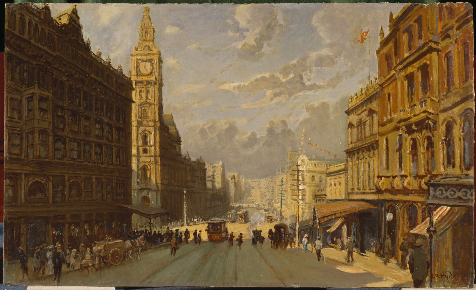 This is a painting by George Hyde Pownall showing trams running down Bourke St in Melbourne. It is looking east from a point midway between Elizabeth and Queen streets, showing the General Post Office clocktower and State Parliament of Victoria in the background. It was painted in 1912 and hangs in the Cowan Gallery at the State Library of Victoria (as of April 2019). Oil on millboard ; 67.0 x 112.0 cm. (sight) in frame 93.3 x 139.5 cm.